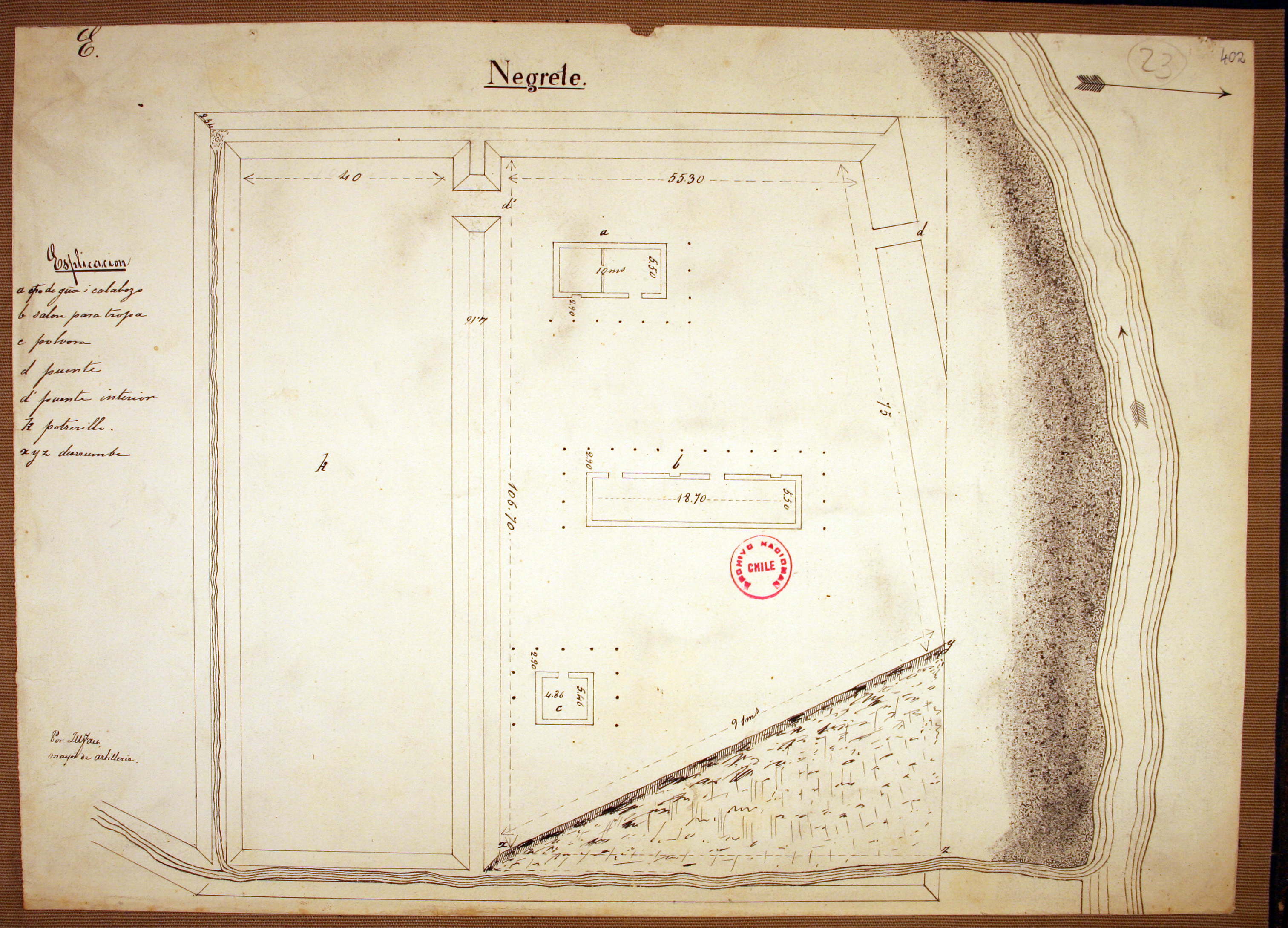 Map of Fort Negrete (made by Jose Miguel Faez and found in the National Archives of Chile): base plane reconstruction Negrete, December 12, 1861, as a Chilean fort, part of the plan of military occupation and incorporation of the town Mapuche, who lived south of the Bio-Bio river, the river was for centuries considered the boundary or natural boundary, agreed in the various treaties or parliaments, between Spain and the Mapuche people, and even in the last parliament of Tapihue, 1825 between Chile and the Mapuche people. A program designed and executed by Colonel Cornelio Saavedra Rodriguez, during the presidency of Jose Joaquin Perez Mascayano, in the context of the beginning of the Occupation of Araucanía, euphemistically misnamed Pacification of Araucanía, in the final stage of the War of Arauco, involving the incorporation of Mapuche territory to the Chilean state and the reduction of the Mapuche people by the Army of the Republic of Chile, where Cornelio Saavedra served as Inspector General Gregory Urrutia Venegas as Commander in Chief of the Army of Occupation of Arauco.